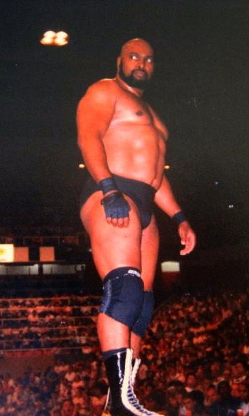 Professional wrestler Allen Coage during his time with the WWF in the late '80s.